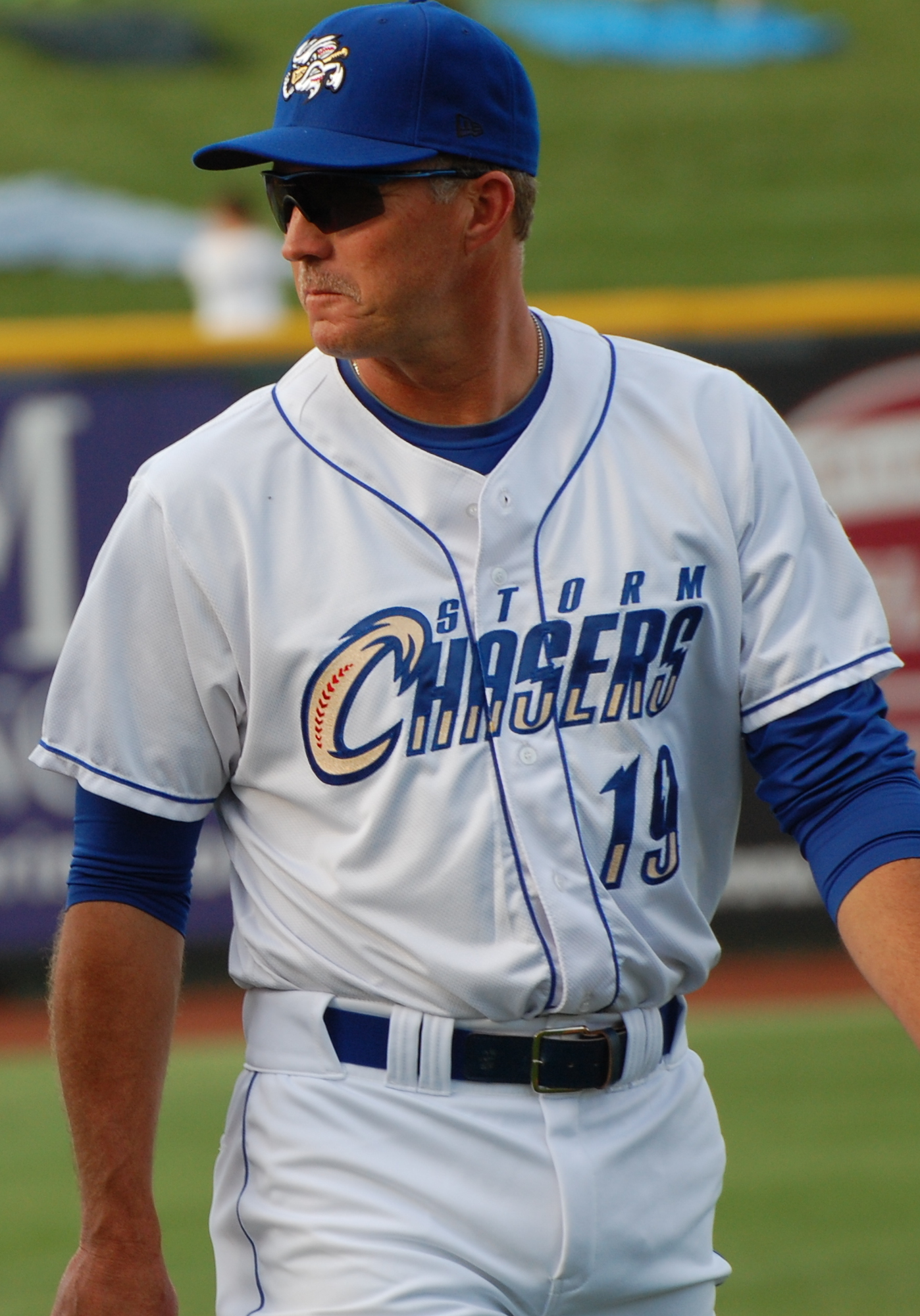 Doug Henry (right) with the Omaha Storm Chasers at Werner Park in Omaha in 2012